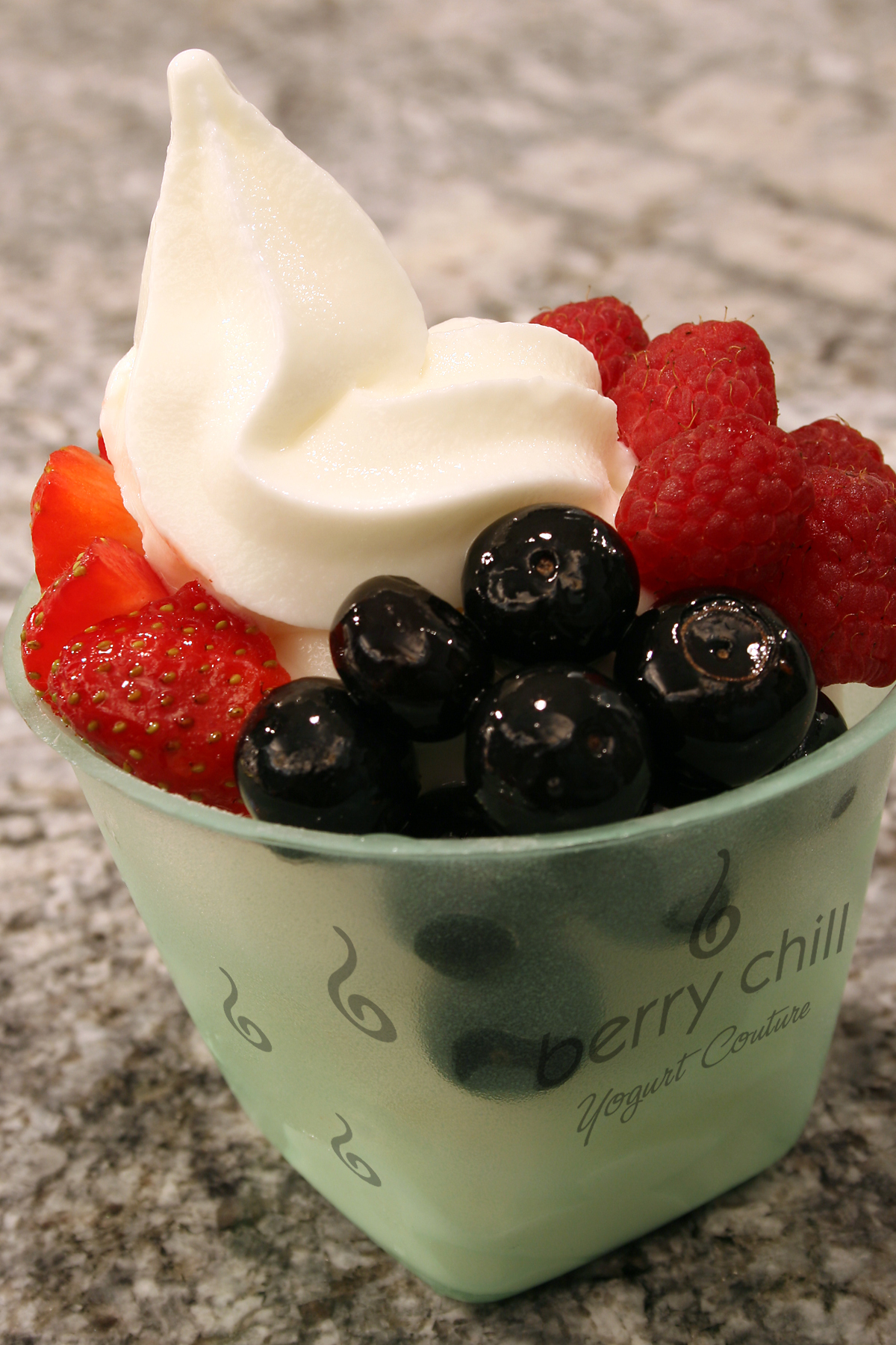 A shot of the yogurt with one of Berry Chill's many topping offerings.